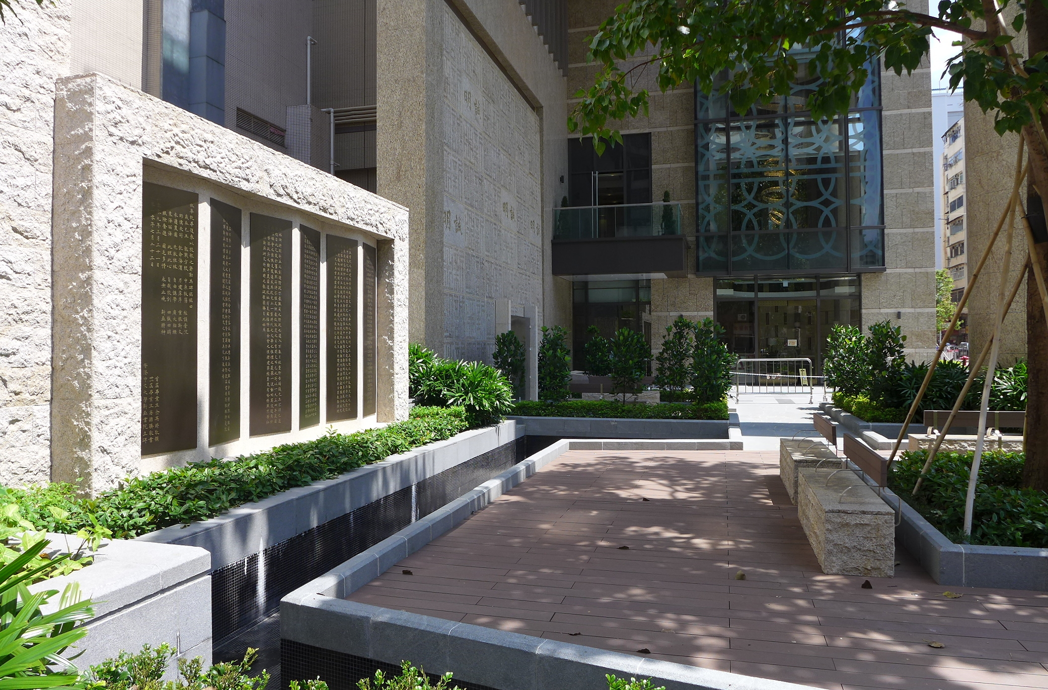 Trinity Towers Public Open Space